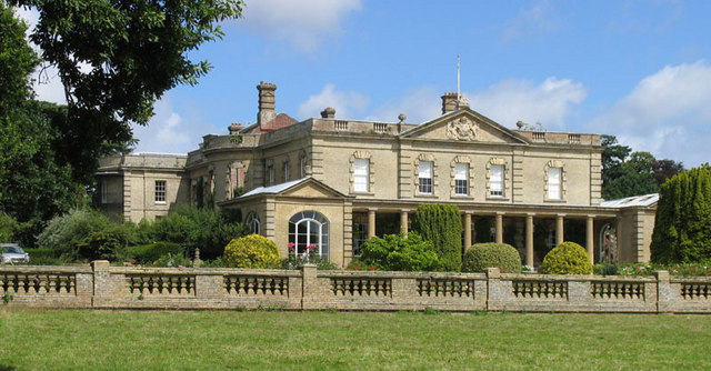 Gunton Hall, Norfolk